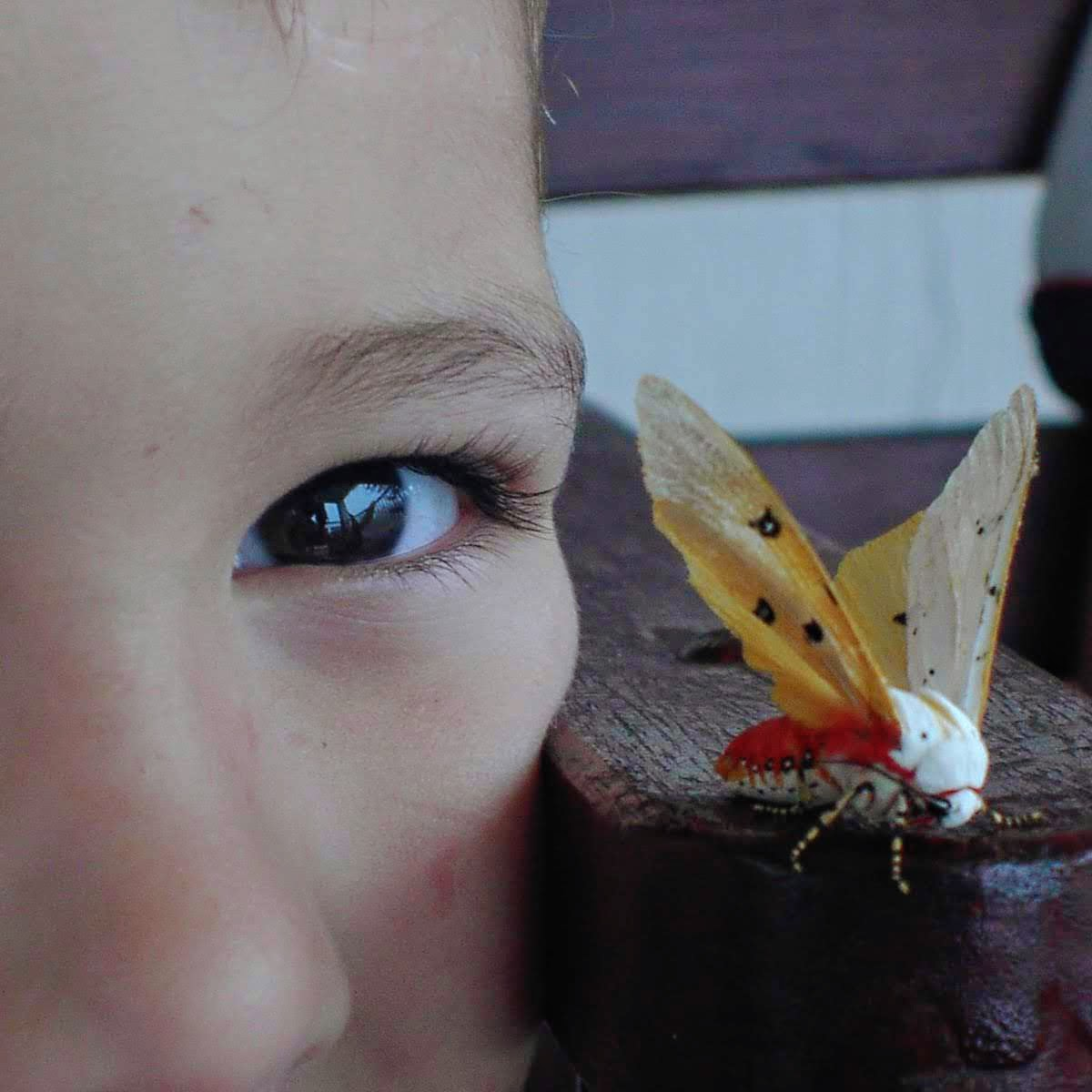 Young African boy intrigued by a bright yellow and red moth This is an image with the theme "Play" from: South Africa